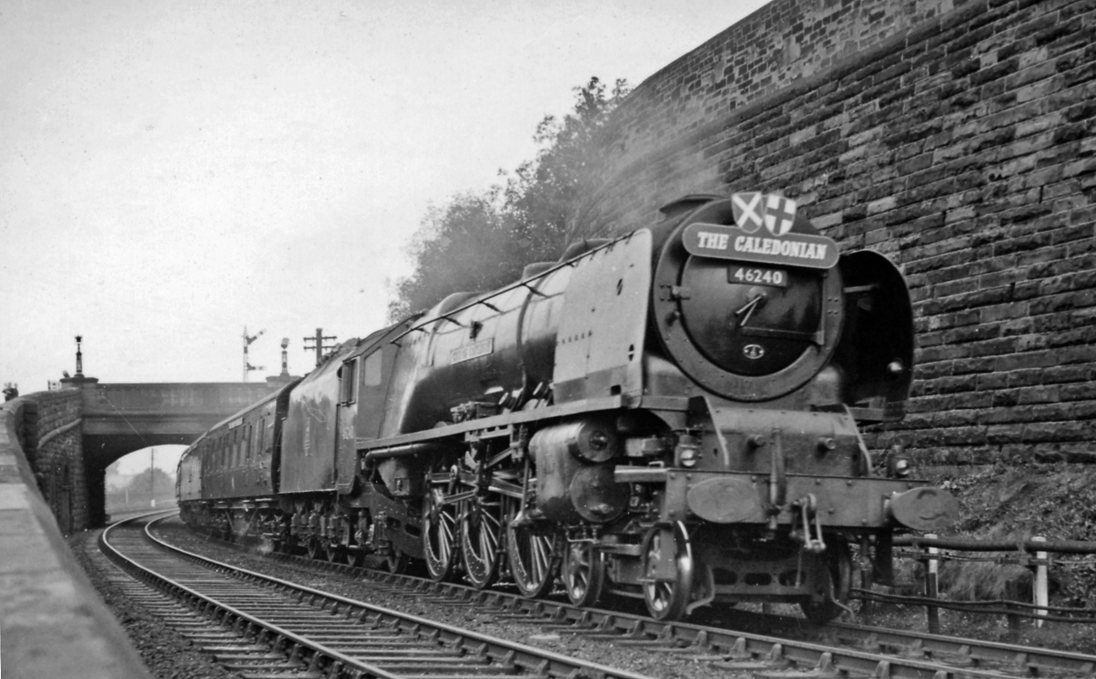 The Up 'Caledonian' enters Carlisle with a 'Coronation' Pacific. View northward, towards Glasgow etc., West Coast Main Line. The crack express, 08.30 Glasgow Central - London Euston, headed this day by No. 46240 'City of Coventry', is coming under Victoria Bridge past West Walls. (See also NY3956 : The 'Royal Scot' entering Carlisle).